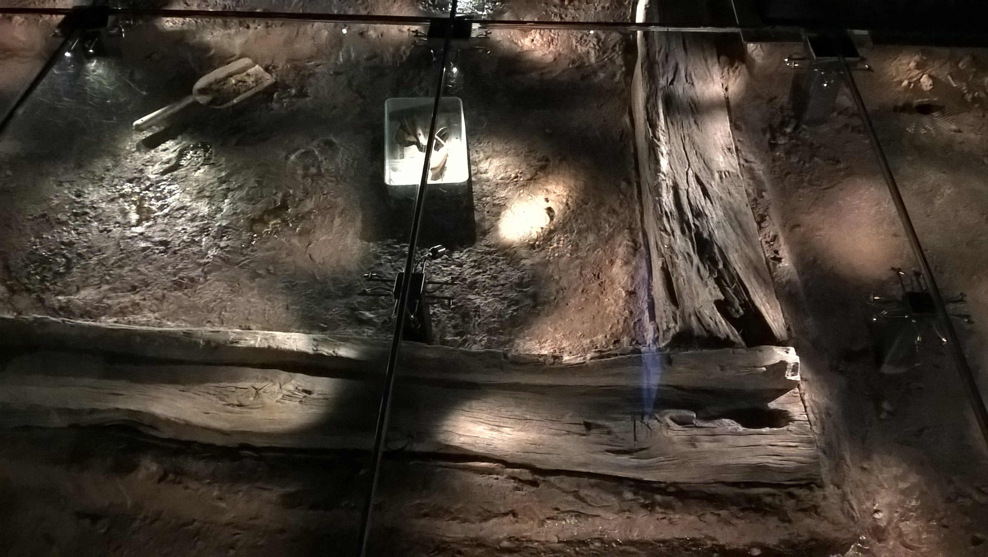 Under the glass floor at the Jorvik Viking centre is a reproduction of the archeological site. The timbers are actual ones found here, but the soil and water are artificial to look as it was.